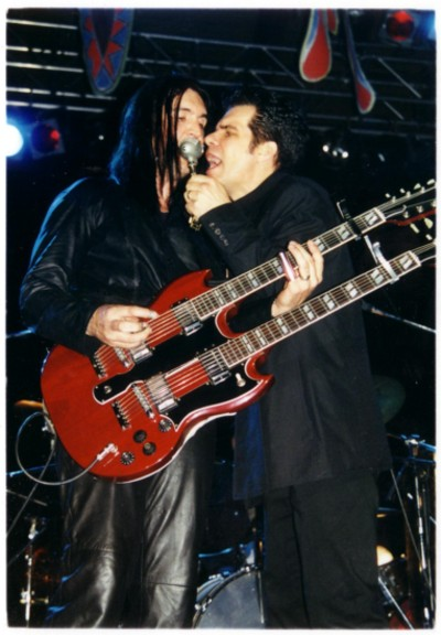 This photo of Gordie Johnson and Kelly Hoppe was taken by myself on a Pentax SLR and then scanned to upload here. Photo is from a Big Sugar live performance in Barrie at Georgian College, sometime in 1997.